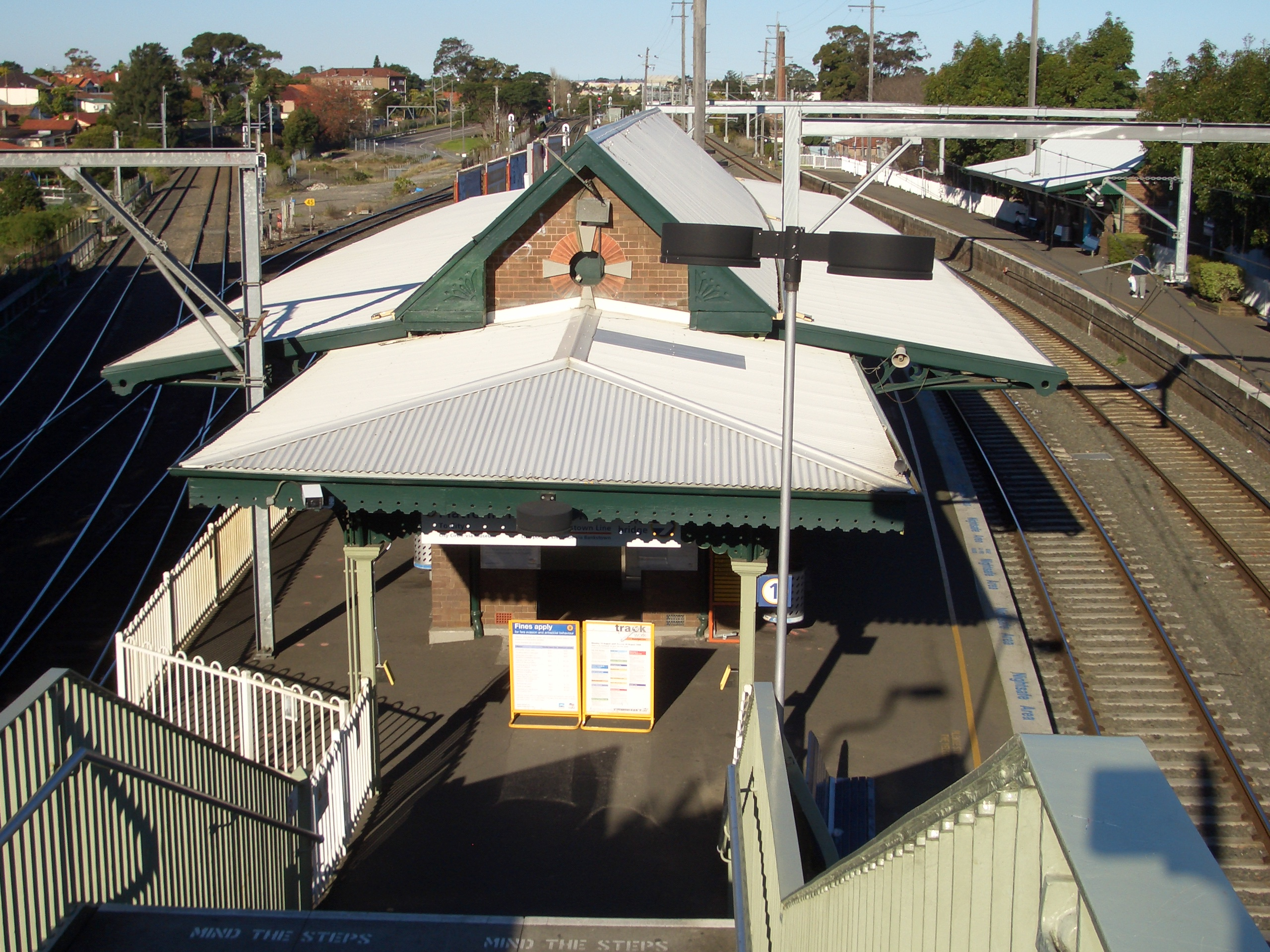 Marrickville railway station, Sydney